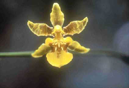 An orchid. Oncidium floridanum, synonym of Oncidium ensatum [1]